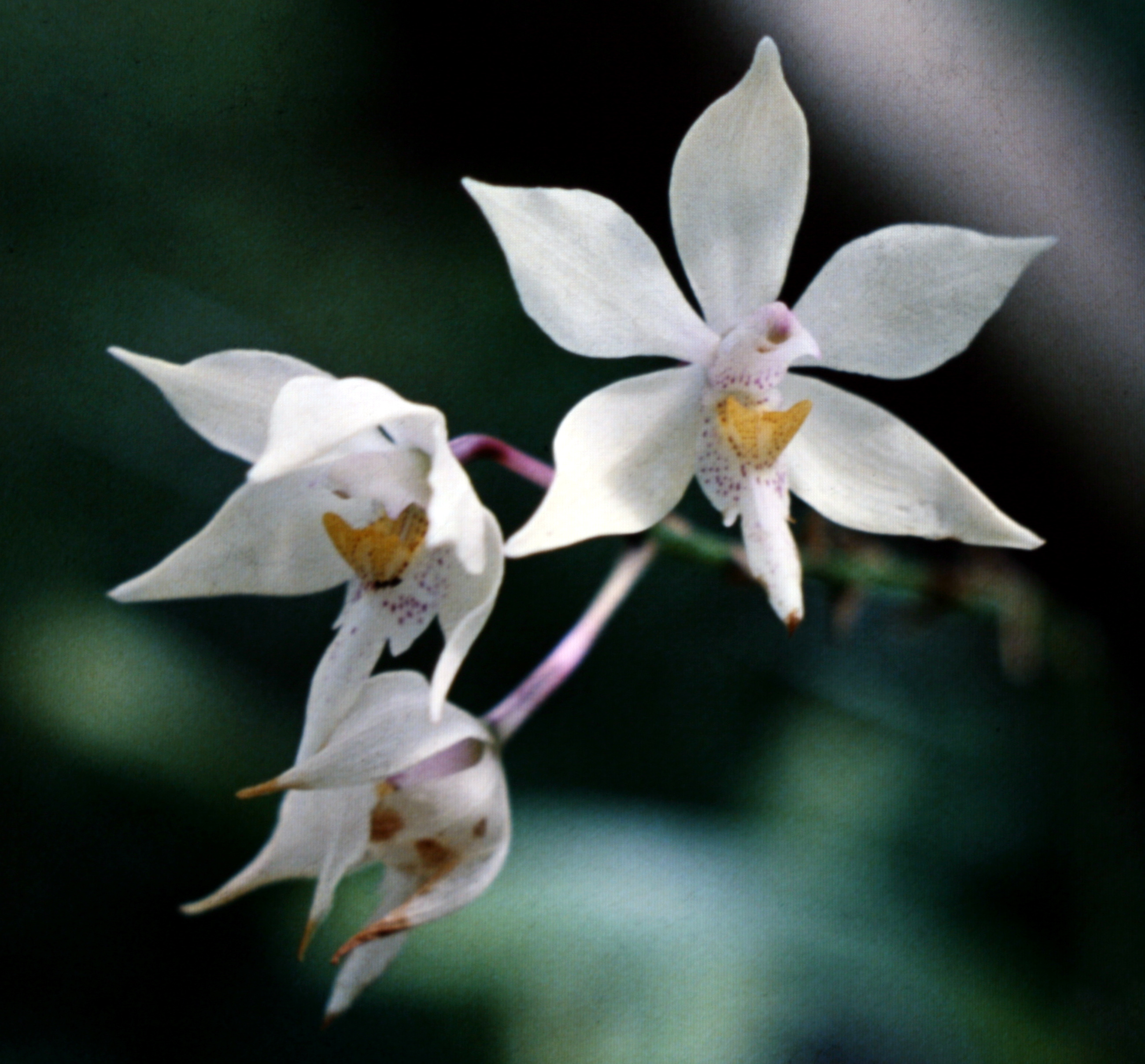 Caularthron bicornutum, Suriname. Plant found near Corantijn river